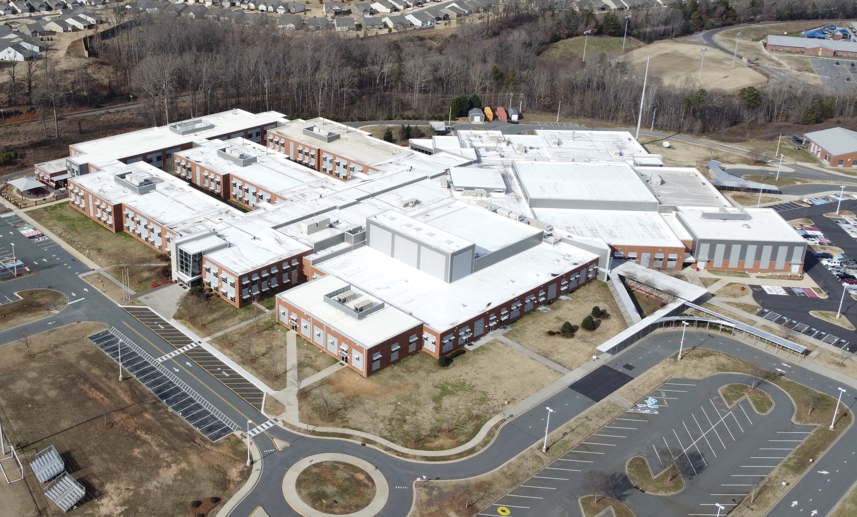 Aerial of the main building